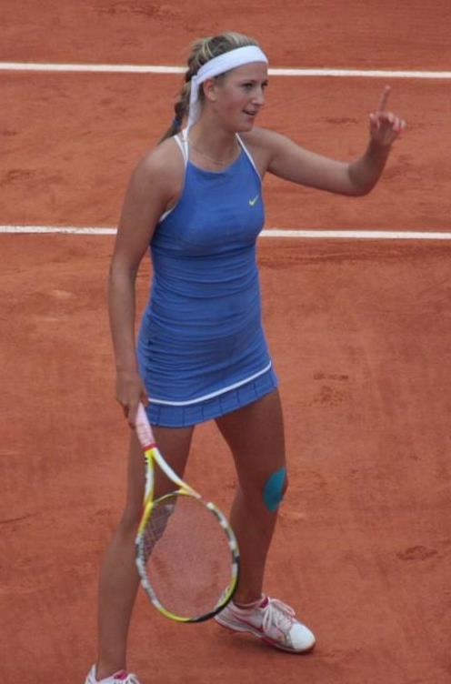 Victoria Azarenka at 2009 Roland Garros, Paris, France.